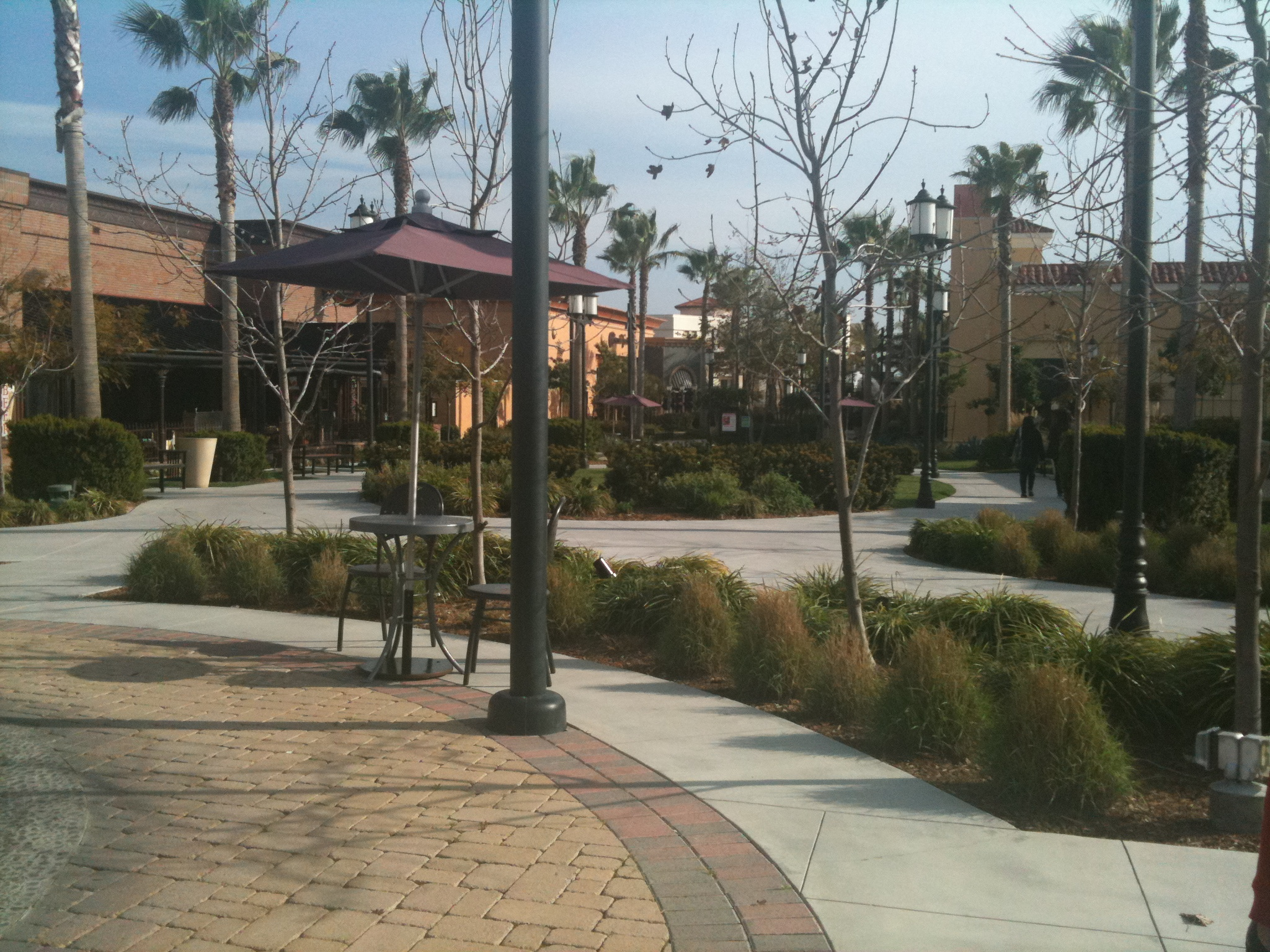 Otay Ranch Town Center mall in Chula Vista, CA